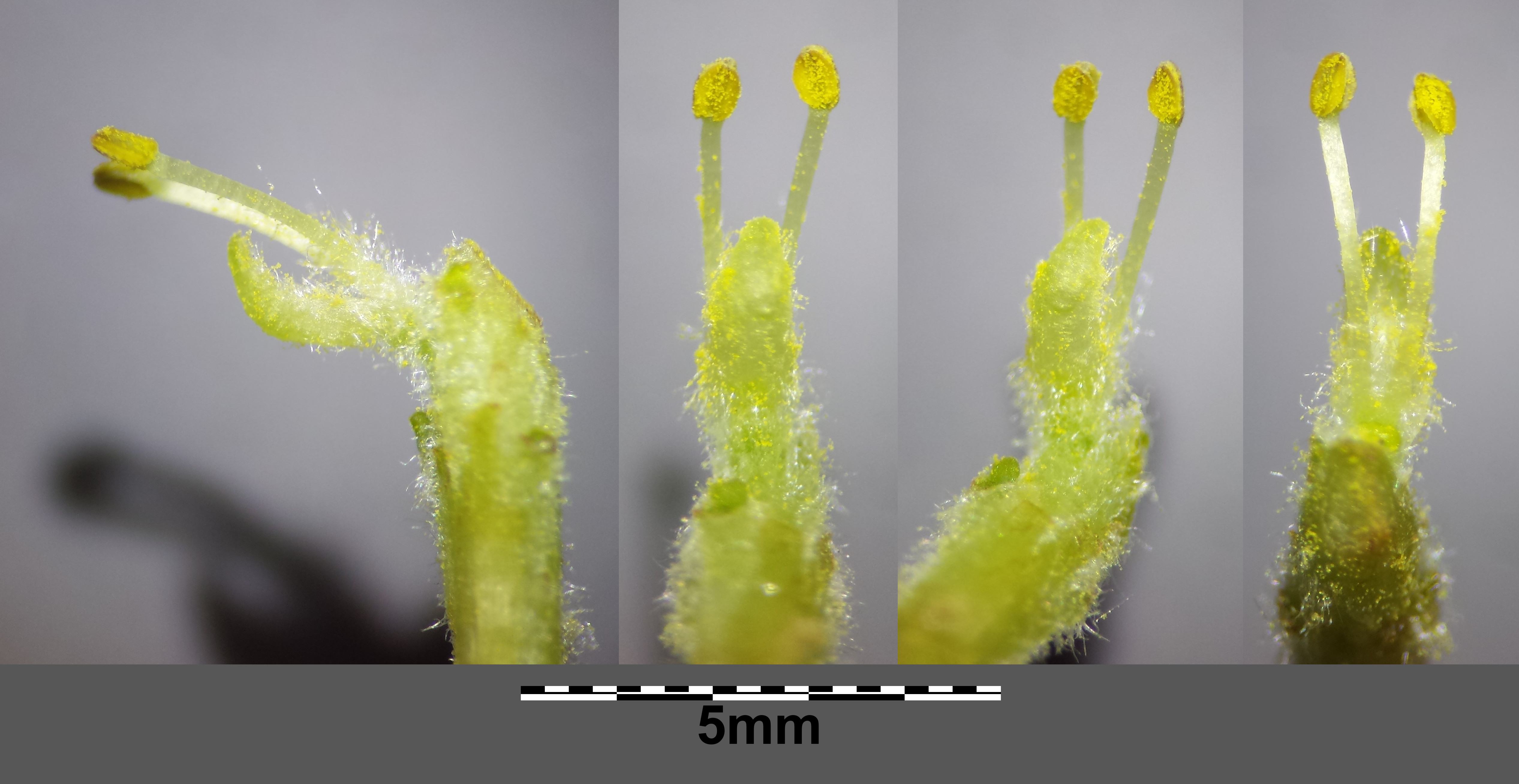 Male flower with two stamina and glabrous bract Taxonym: Salix alba ss Fischer et al. EfÖLS 2008 ISBN 978-3-85474-187-9 Location: Jedlersdorf rail station, Vienna-Floridsdorf - ca. 160 m a.s.l. Habitat: ruderal area